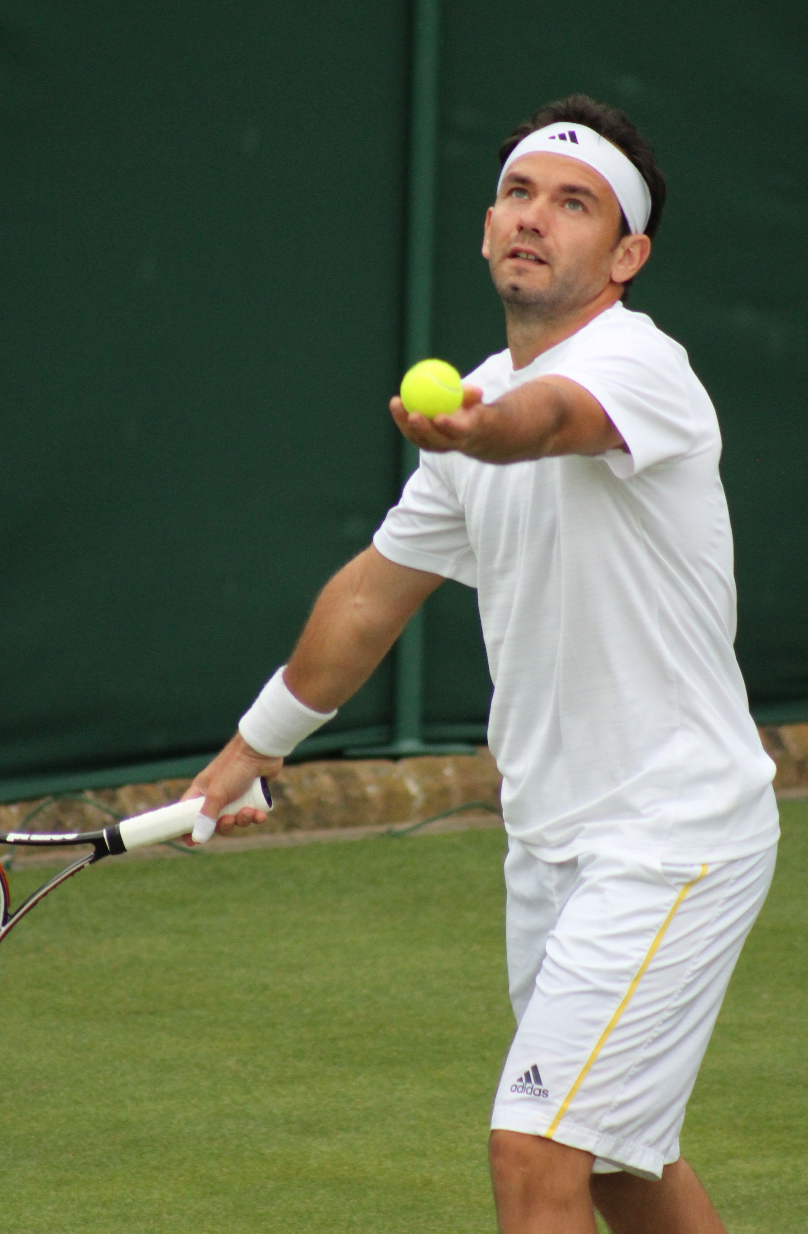 Florin Mergea playing in 1st Round of the Mens Doubles at Wimbledon 2013 on 24 June 2013; partner was Philipp Marx (GER); opponents Paul Hanley (AUS) & John-Patrick Smith (AUS)